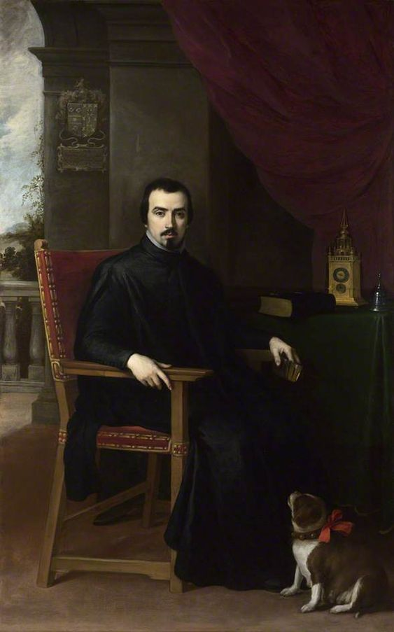 Portrait of Don Justino de Neve The painting is inscribed and dated 1665 on the panel beneath the coat of arms. Don Justino de Neve was a canon of Seville Cathedral and a close friend of Murillo. He was instrumental in commissioning two of Murillo's celebrated series of church decorations, those of S. Maria la Blanca (1662/5) and those for the Hospital of the Venerable Sacerdotes (1670s), the foundation to which the portrait was left on Don Justino's death in 1685. The painting was considered a masterpiece among Murillo's comparatively rare portraits by early writers on the artist, who singled out for praise the dog to the right, which directs attention to his master. In its relative austerity the design recalls Roman ecclesiastical portraits.